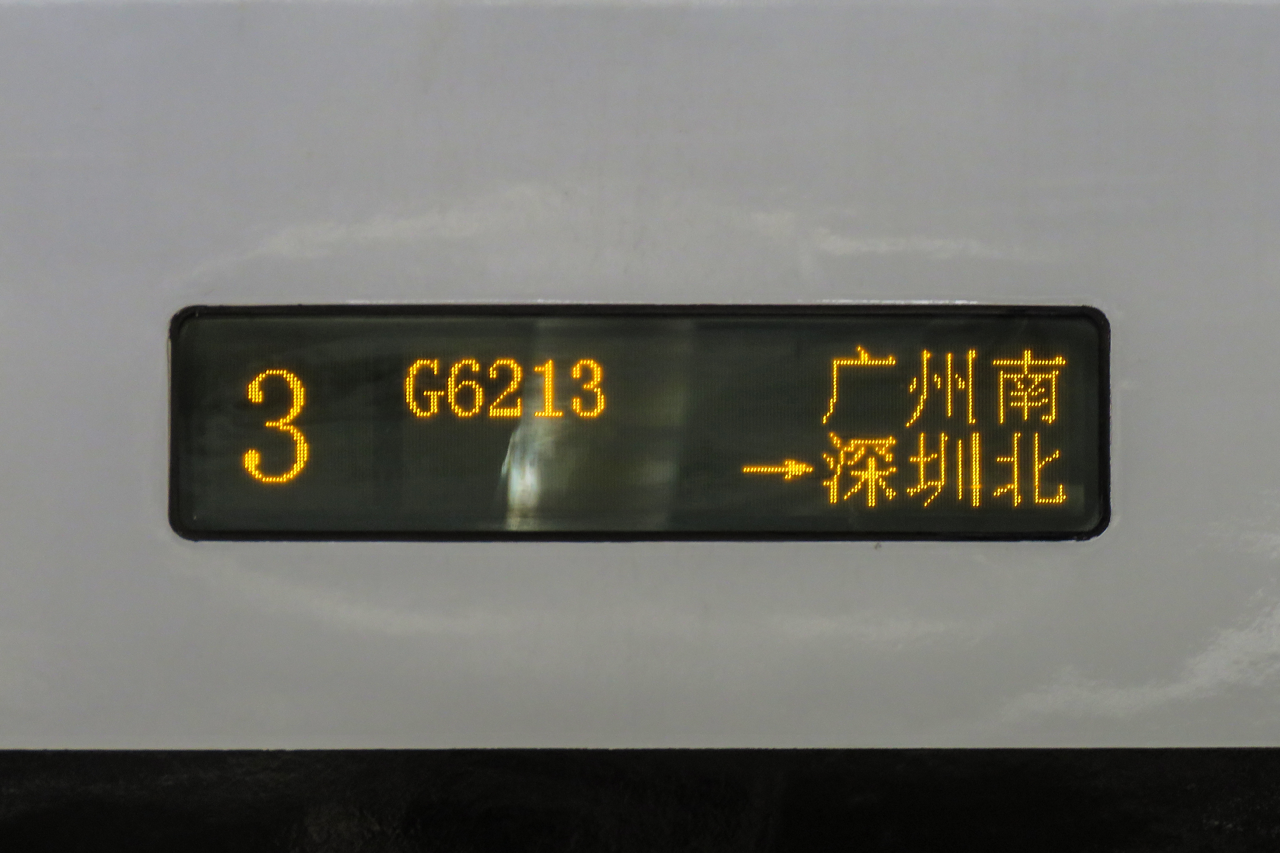 G6213, run by double-headed CR400AFs.